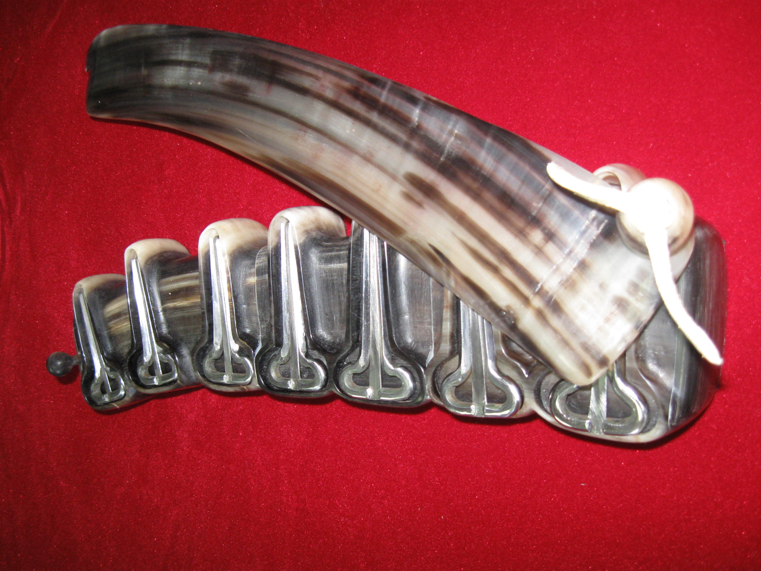 Kyrgyz collection of 7 tuned temir (ooz) komuz